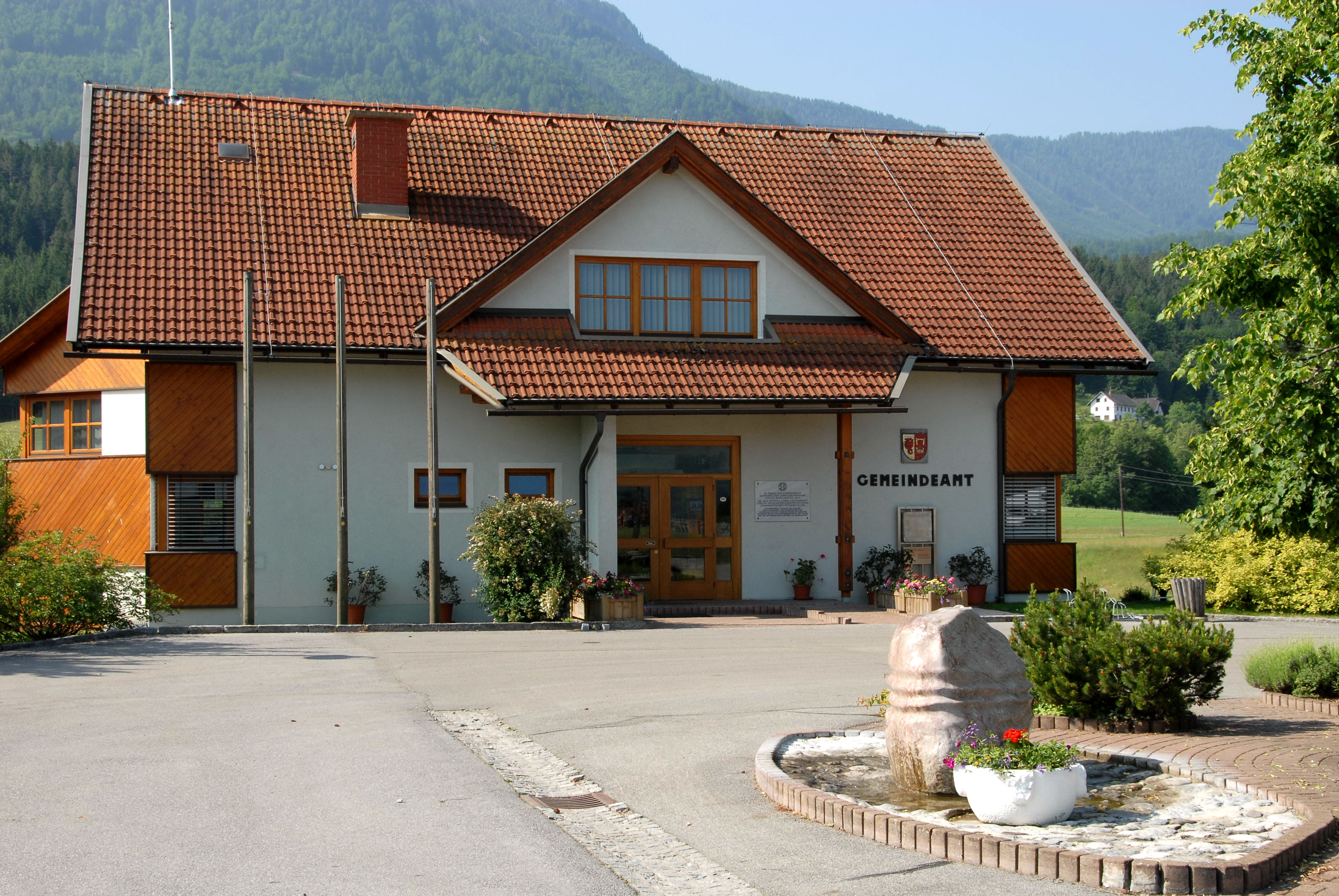 Municipal office in Sankt Margareten im Rosental, municipality Sankt Margareten im Rosental, district Klagenfurt Land, Carinthia, Austria, EU